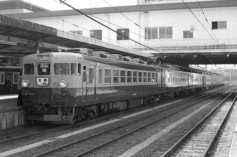 Japanese National Railway type 165